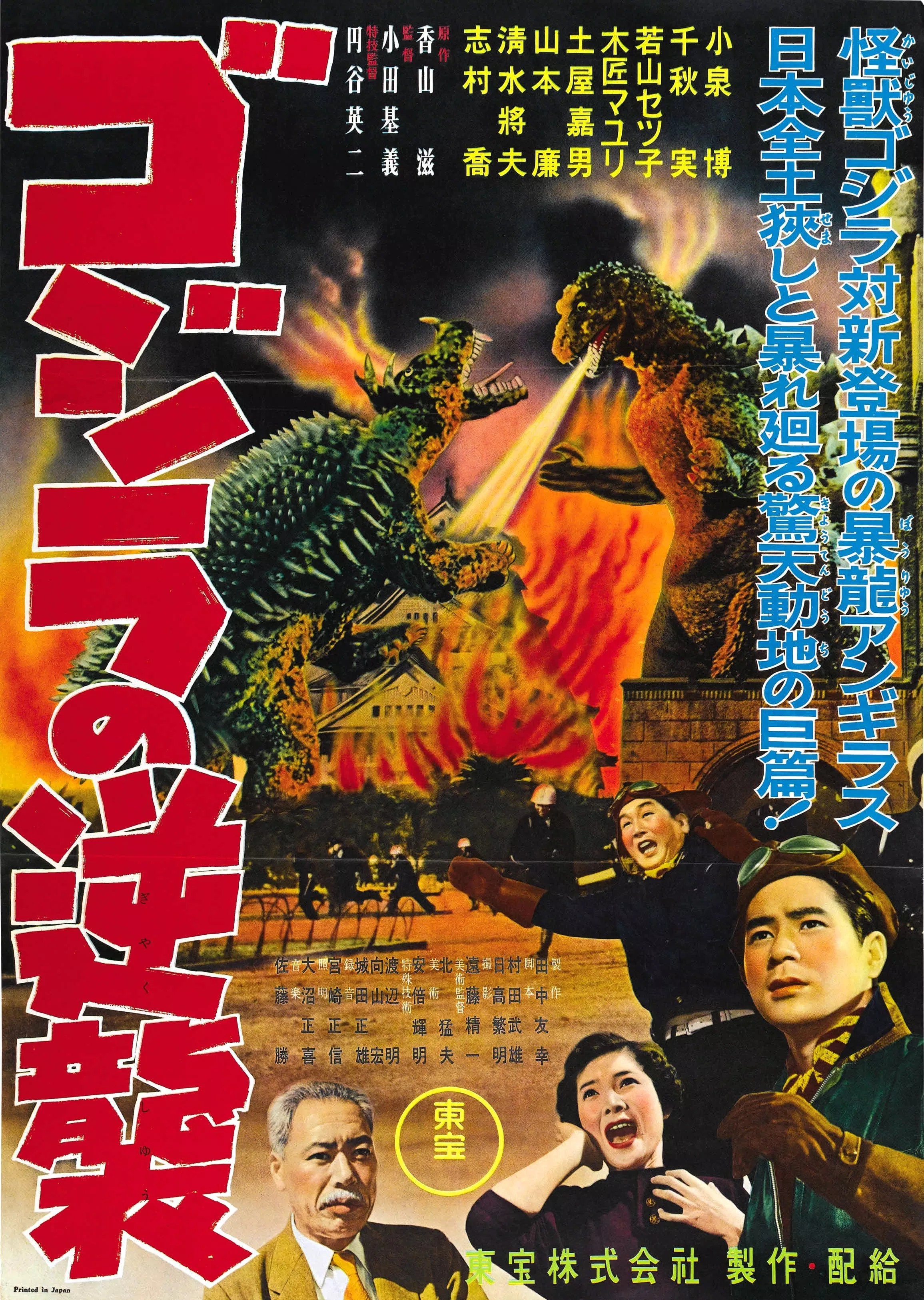 Japanese movie poster for 1955 Japanese film Godzilla Raids Again (ゴジラの逆襲, Gojira no Gyakushū)